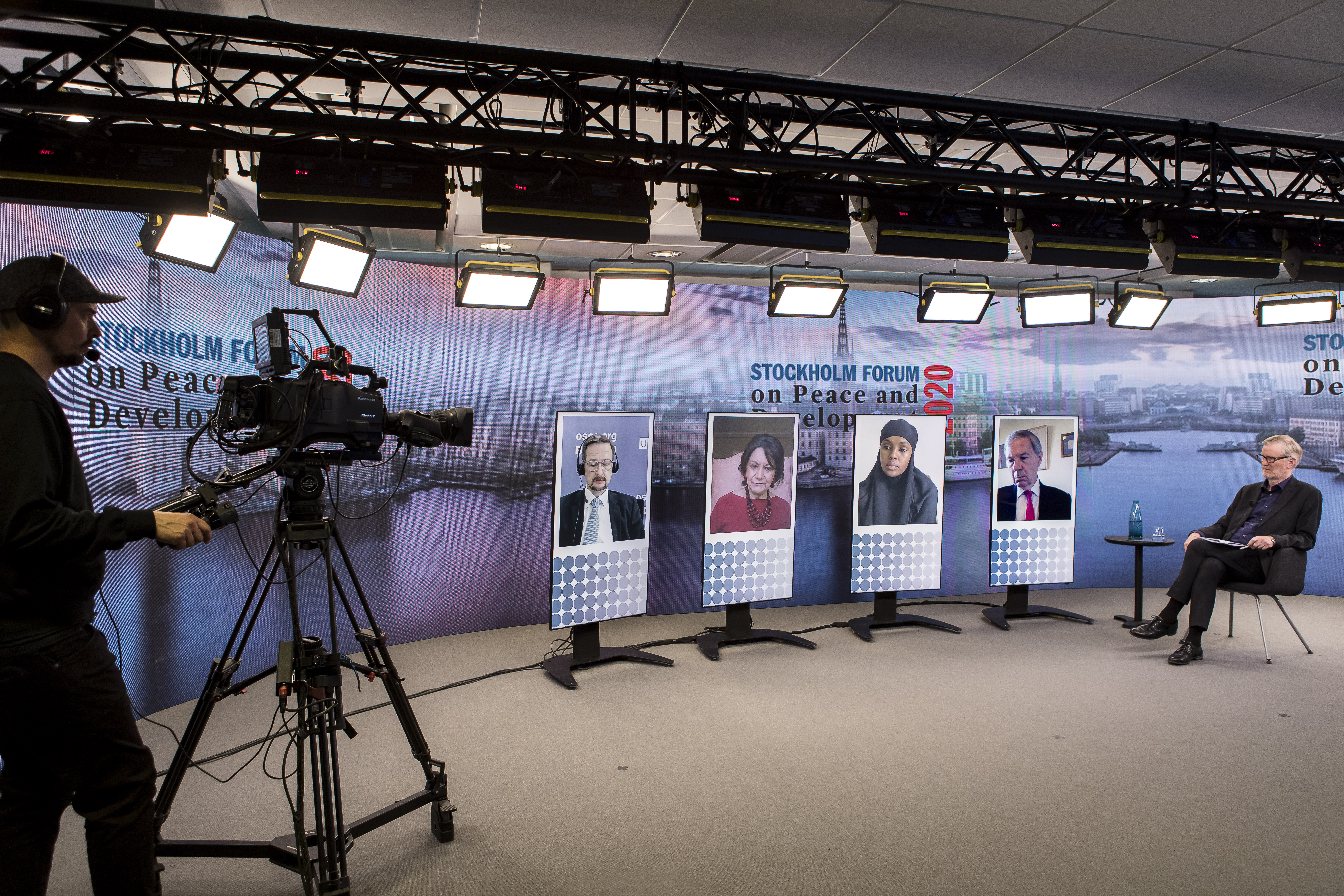 Stockholm Forum on Peace and Development 2020